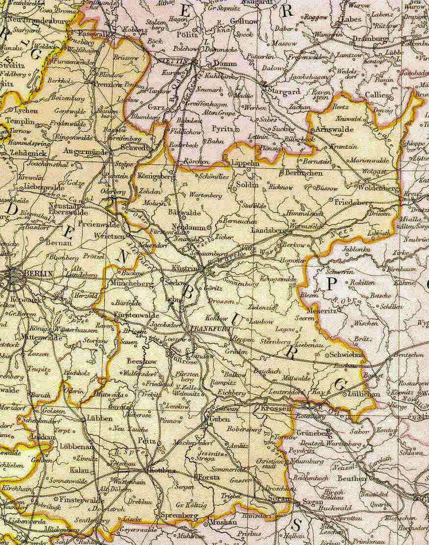 Neumark in year 1892